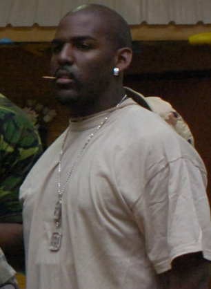 Sgt. Robert Harbour, a native of Broken Bow, Okla., and a signal support systems specialist with Company A, Division Special Troops Battalion, 1st Cavalry Division, takes a photo with (left to right) Nick Harper, a cornerback with the Indianapolis Colts, Israel Idonije, a defensive end with the Chicago Bears, and Chris Harris, a safety also with the Chicago Bears during the football players' visit to the Liberty Morale Welfare and Recreation building April 16.